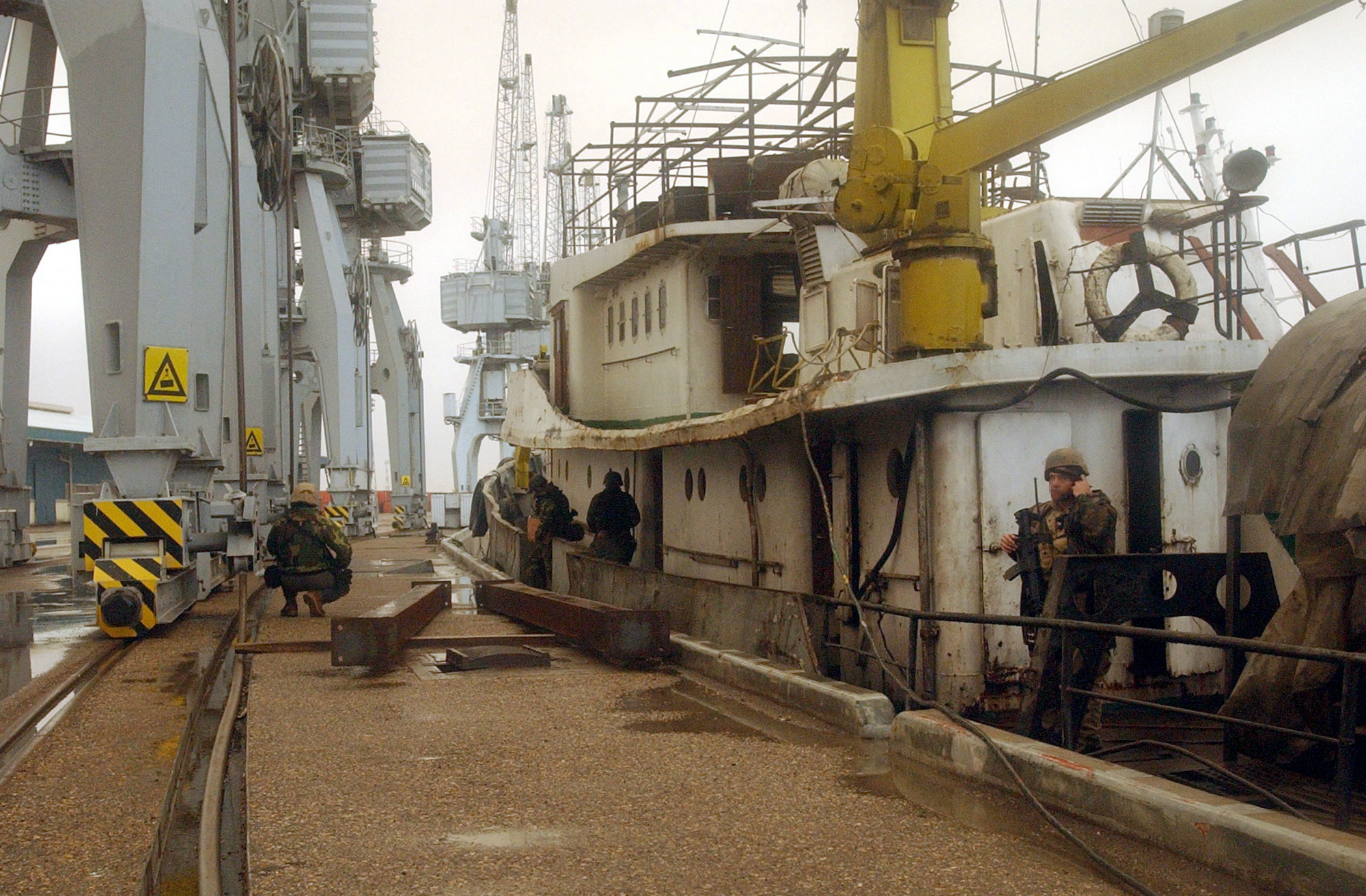 Umm Qasr, Iraq (Mar. 28, 2003) -- U.S. Naval Special Warfare operators search an Iraqi vessel for weapons and illegal cargo. Naval Special Warfare operators assisted in operations that cleared Iraqi waterways of mines and rogue vessels to make way for the arrival of humanitarian relief shipments to the port of Umm Qsar in support of Operation Iraqi Freedom. Operation Iraqi Freedom is the multi-national coalition effort to liberate the Iraqi people, eliminate Iraq’s weapons of mass destruction, and end the regime of Saddam Hussein. U.S. Navy photo by Photographer’s Mate 1st Class Arlo K. Abrahamson. (RELEASED)